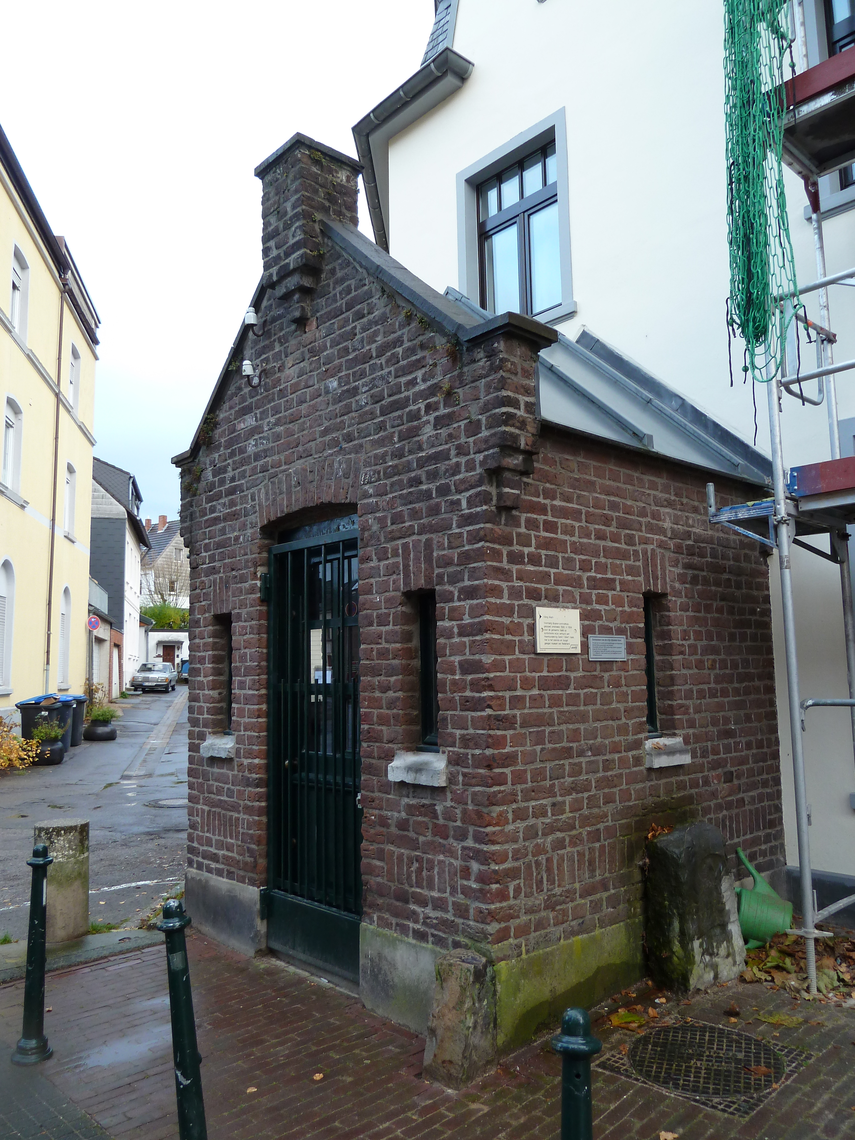 Customs house Akenerstraat, Vaals, Limburg, the Netherlands